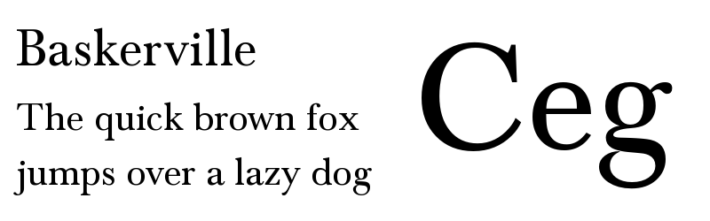 english pangram in typeface Baskerville